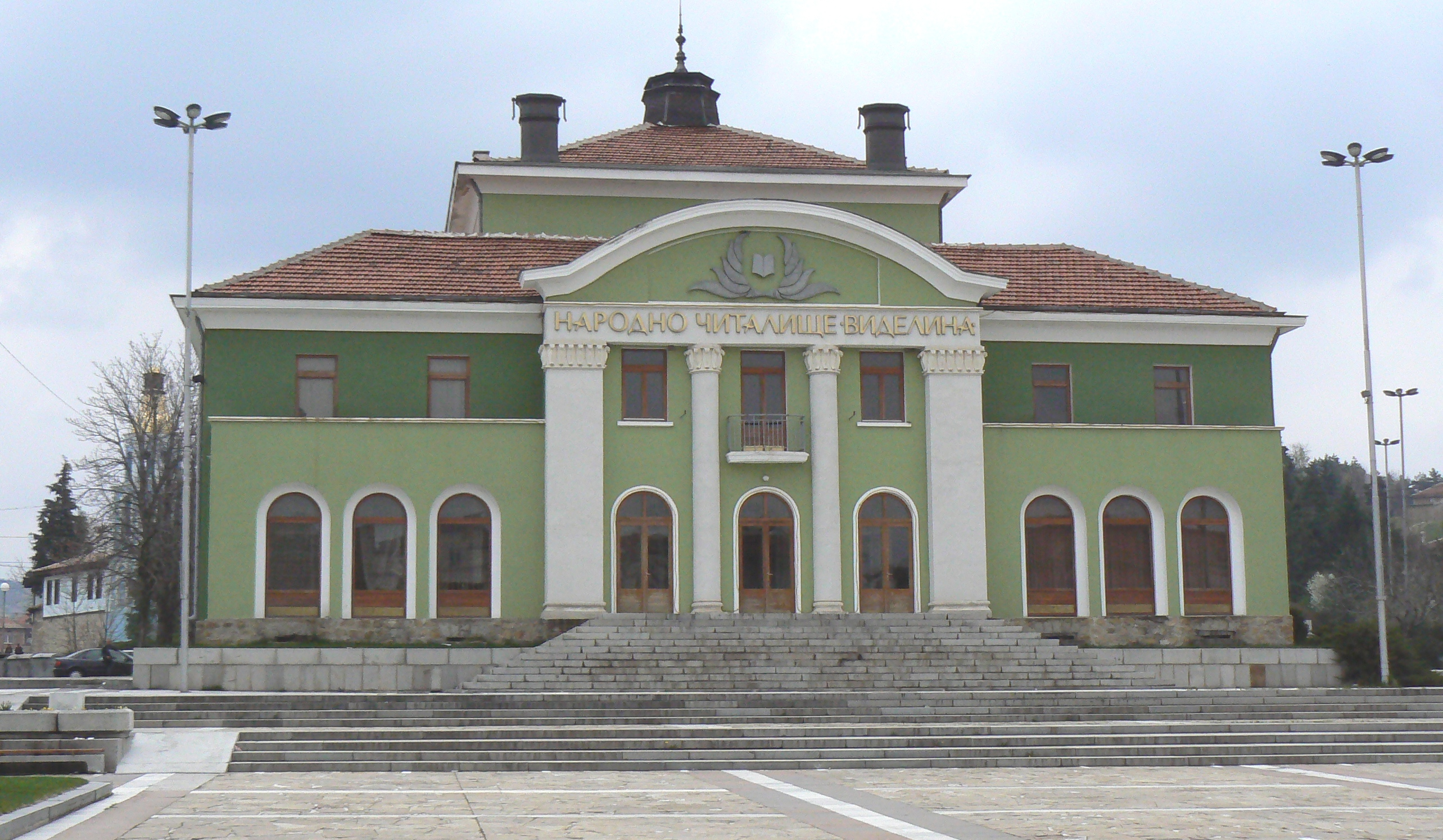 Community center "Videlina" in Panagyurishte, Bulgaria